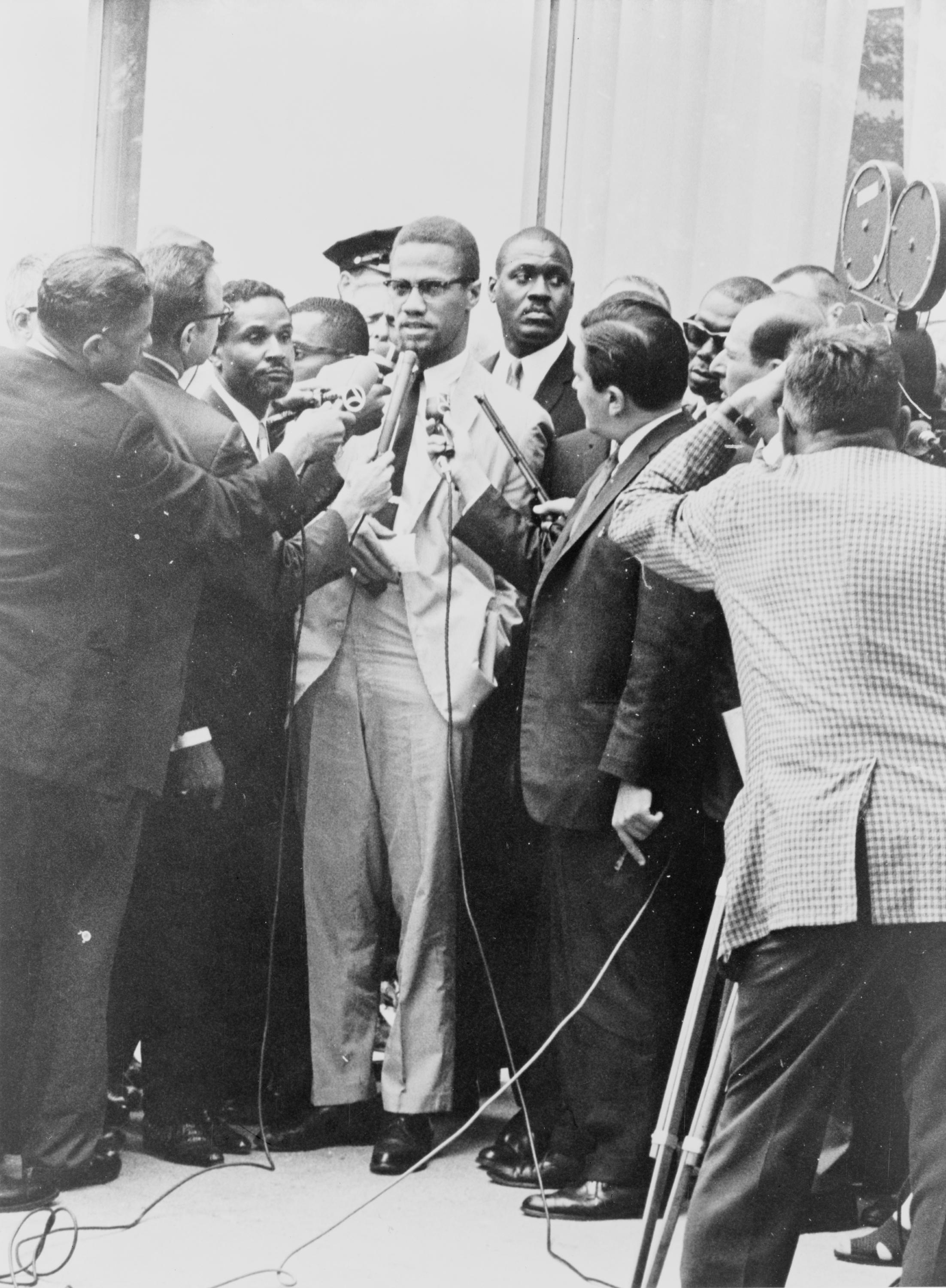 Malcolm X being interviewed by reporters, including WNBC's Gabe Pressman and a cameraman with an Auricon CineVoice 'Chop Top'